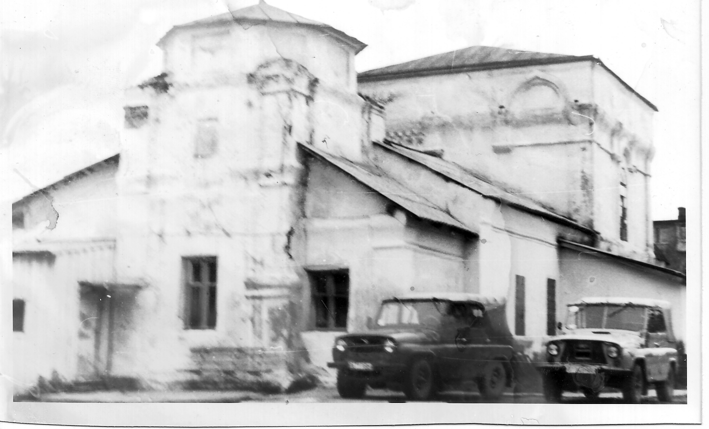 Church of Annunciation of Virgin Mary (Ryazan) in 1990